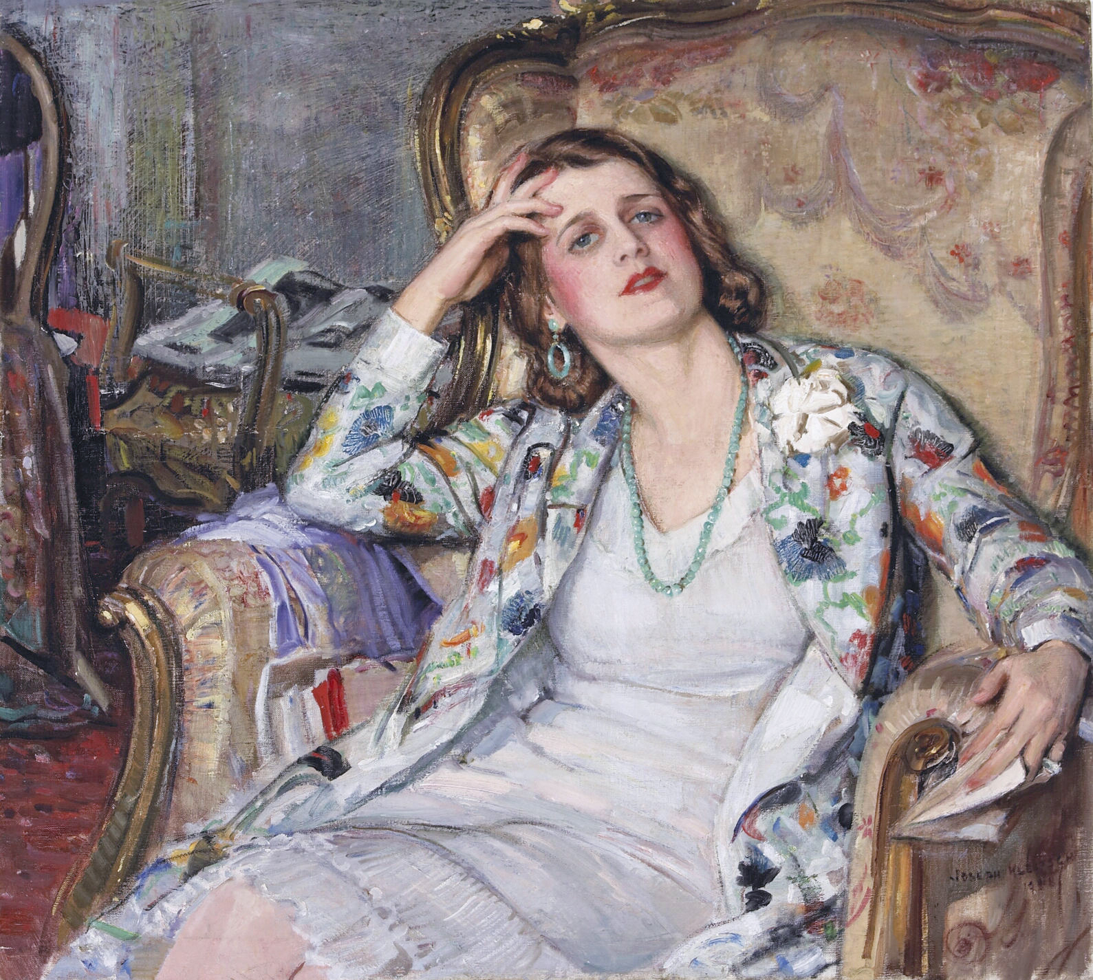 1930: retitled The Jade Necklace